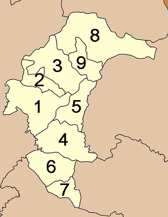 Map of Yasothon province, Thailand, with the districts (Amphoe) numbered Mueang Yasothon (อำเภอเมืองยโสธร) Sai Mun (อำเภอทรายมูล) Kut Chum (อำเภอกุดชุม) Kham Khuean Kaeo (อำเภอคำเขื่อนแก้ว) Pa Tio (อำเภอป่าติ้ว) Maha Chana Chai (อำเภอมหาชนะชัย) Kho Wang (อำเภอค้อวัง) Loeng Nok Tha (อำเภอเลิงนกทา) Thai Charoen (อำเภอไทยเจริญ)